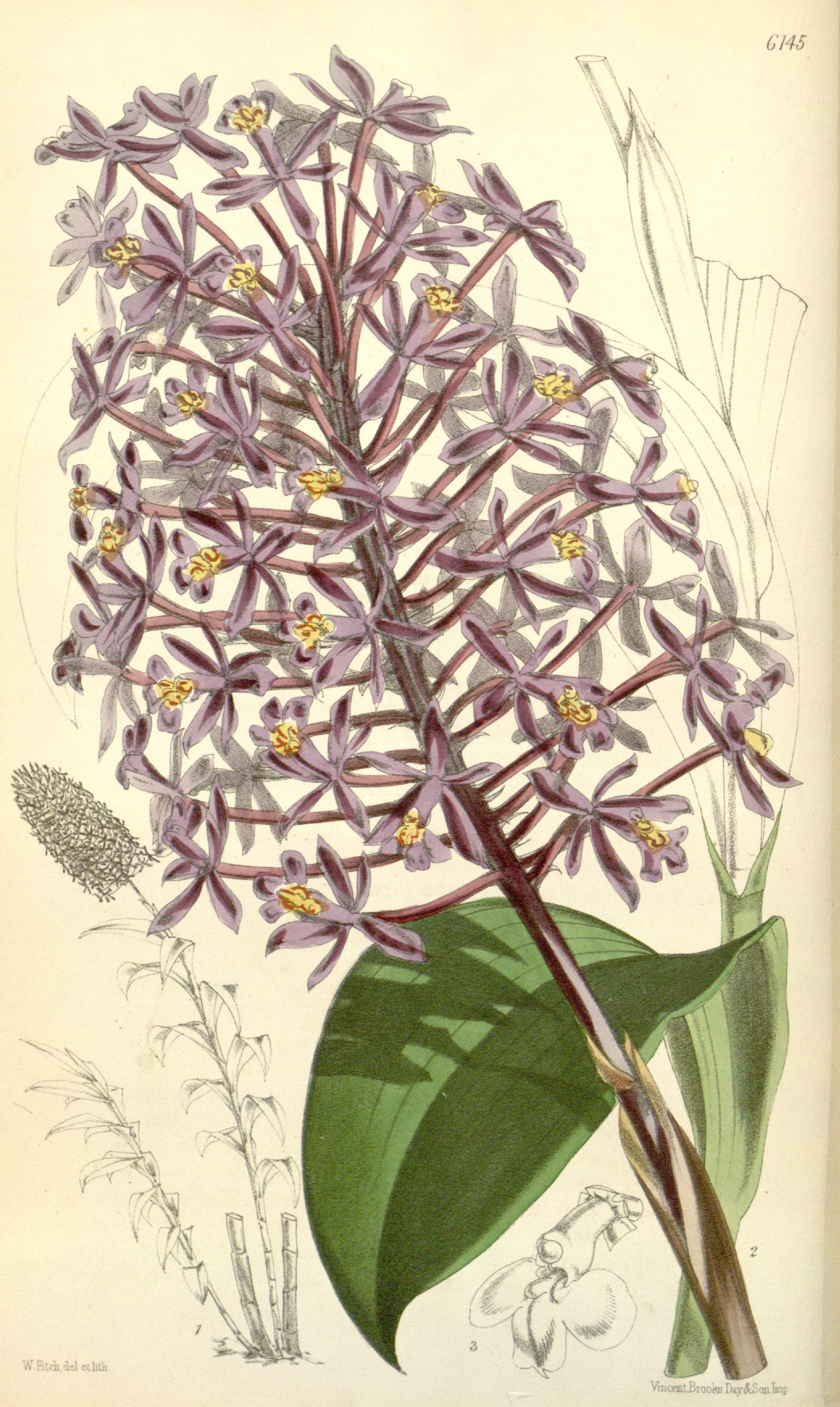 Illustration of Epidendrum syringothyrsis